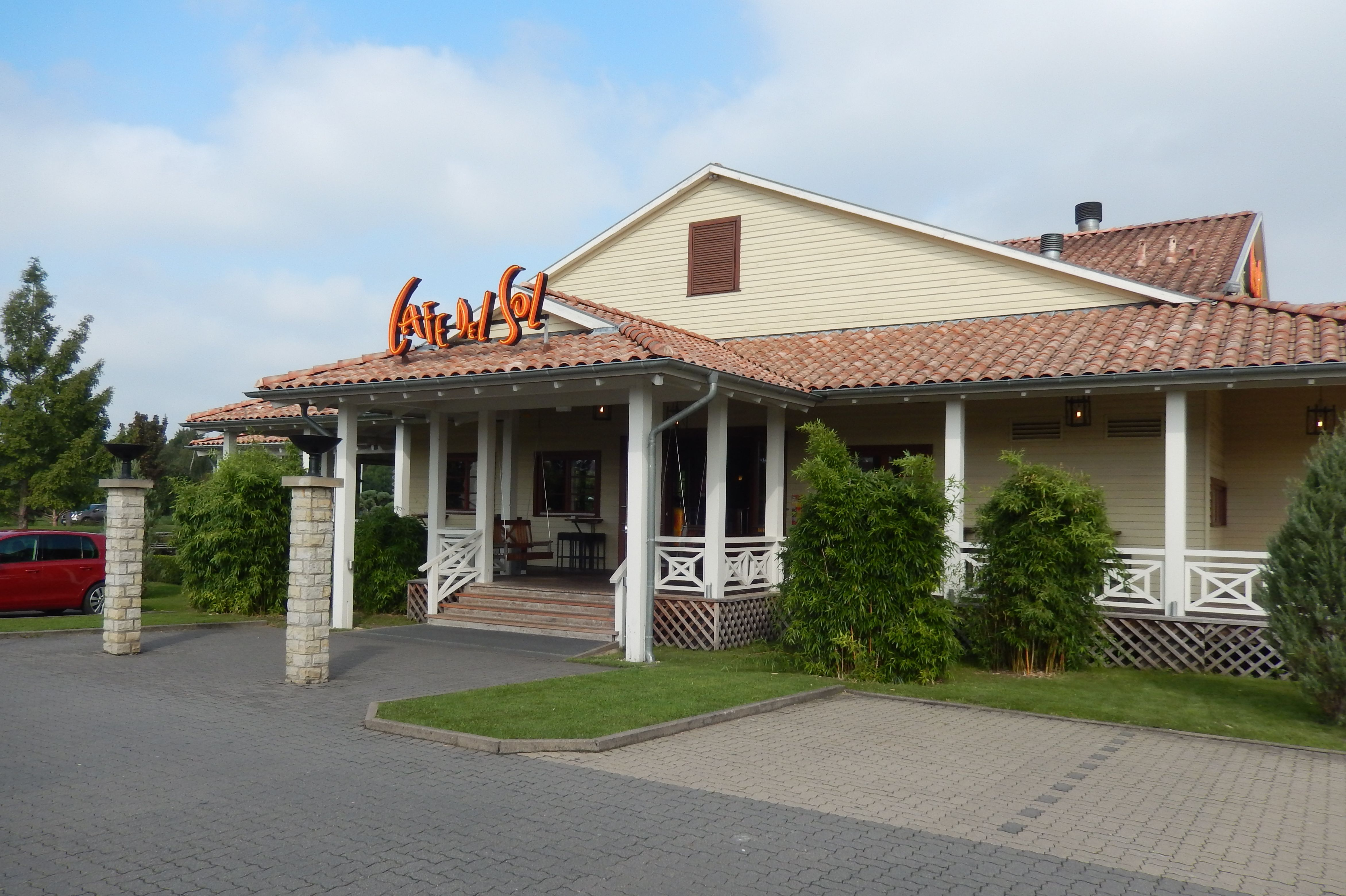 Restaurant Cafe del Sol in Hildesheim, Germany